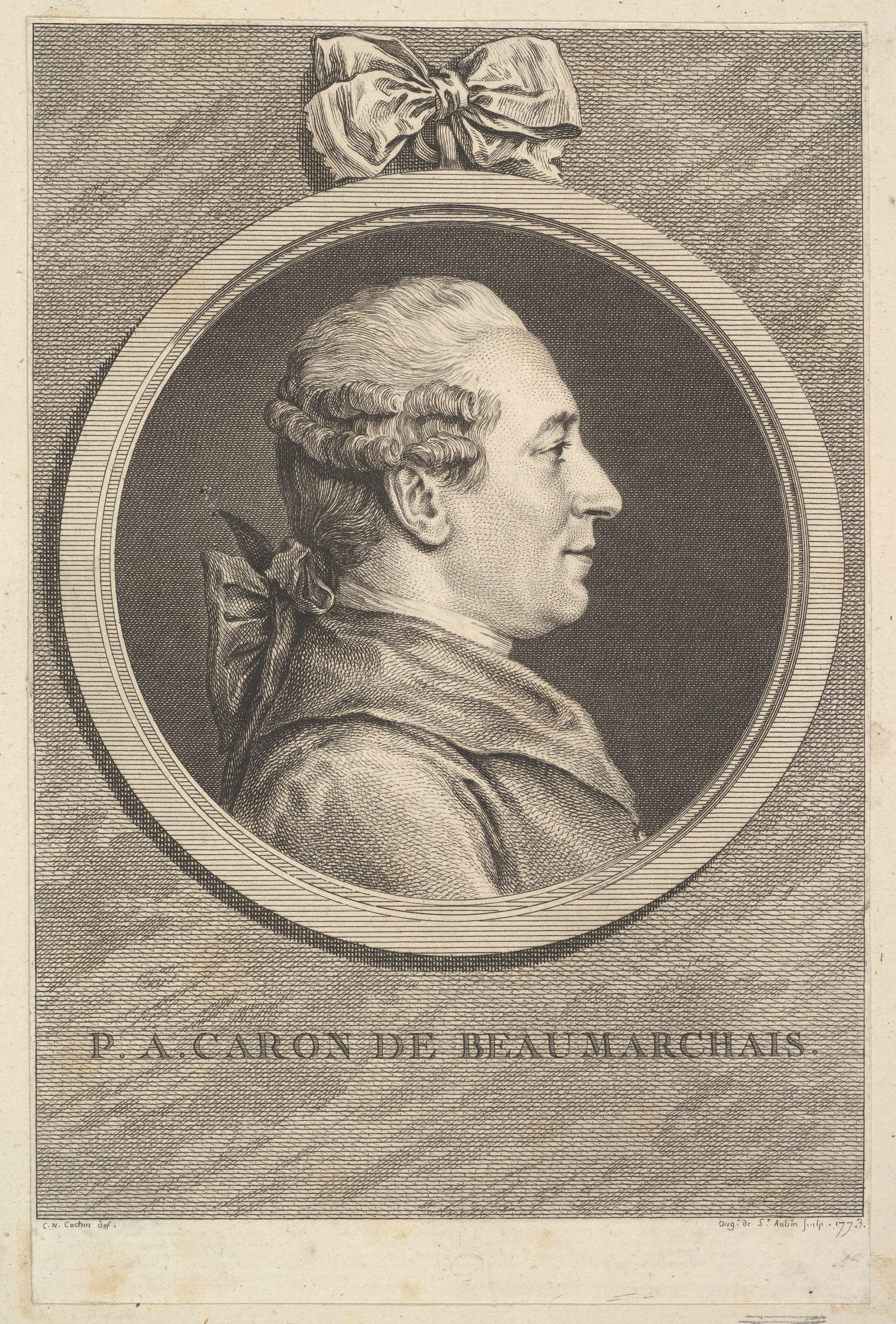 Print; Prints